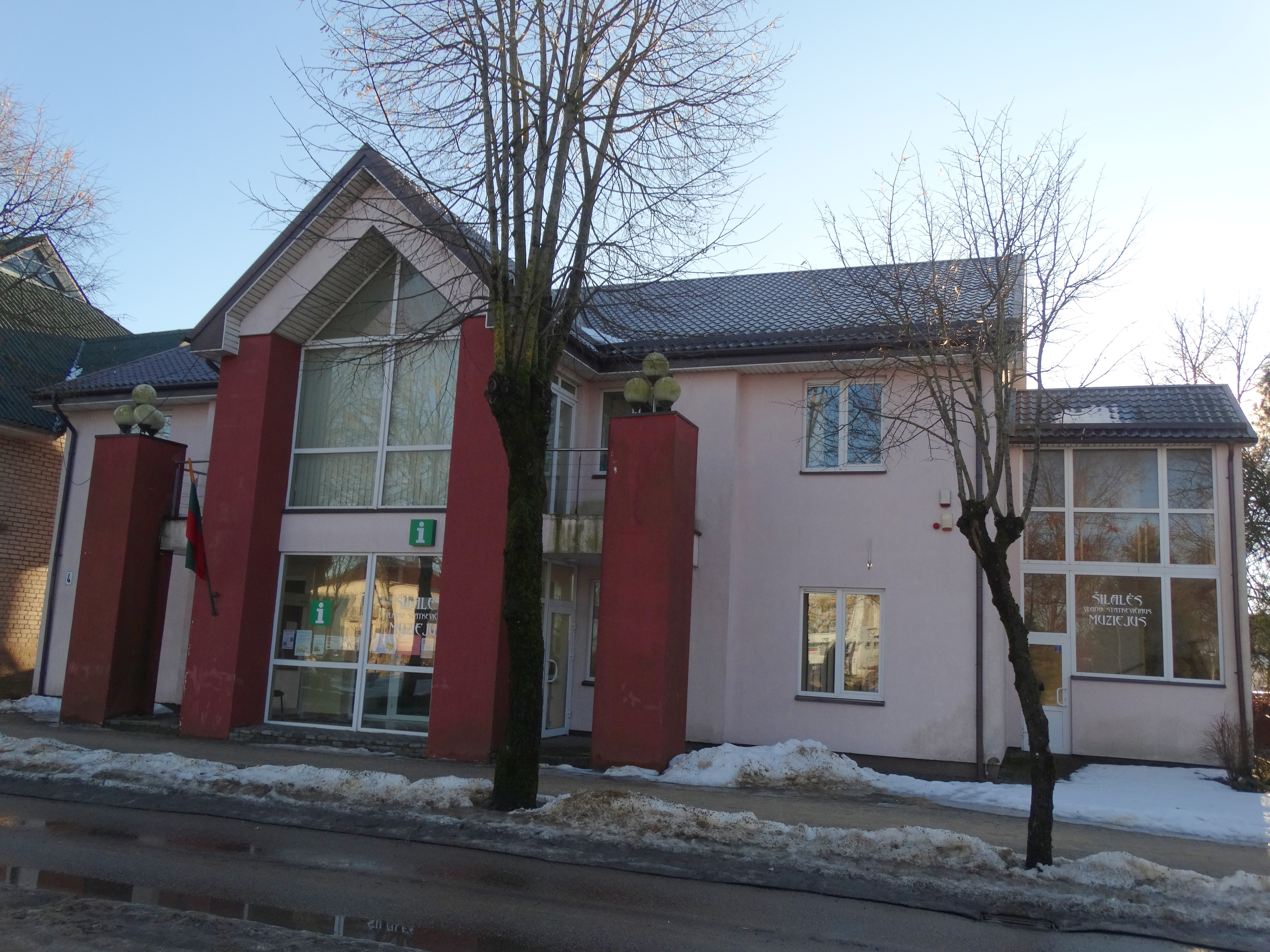 Regional museum, Šilalė, Lithuania